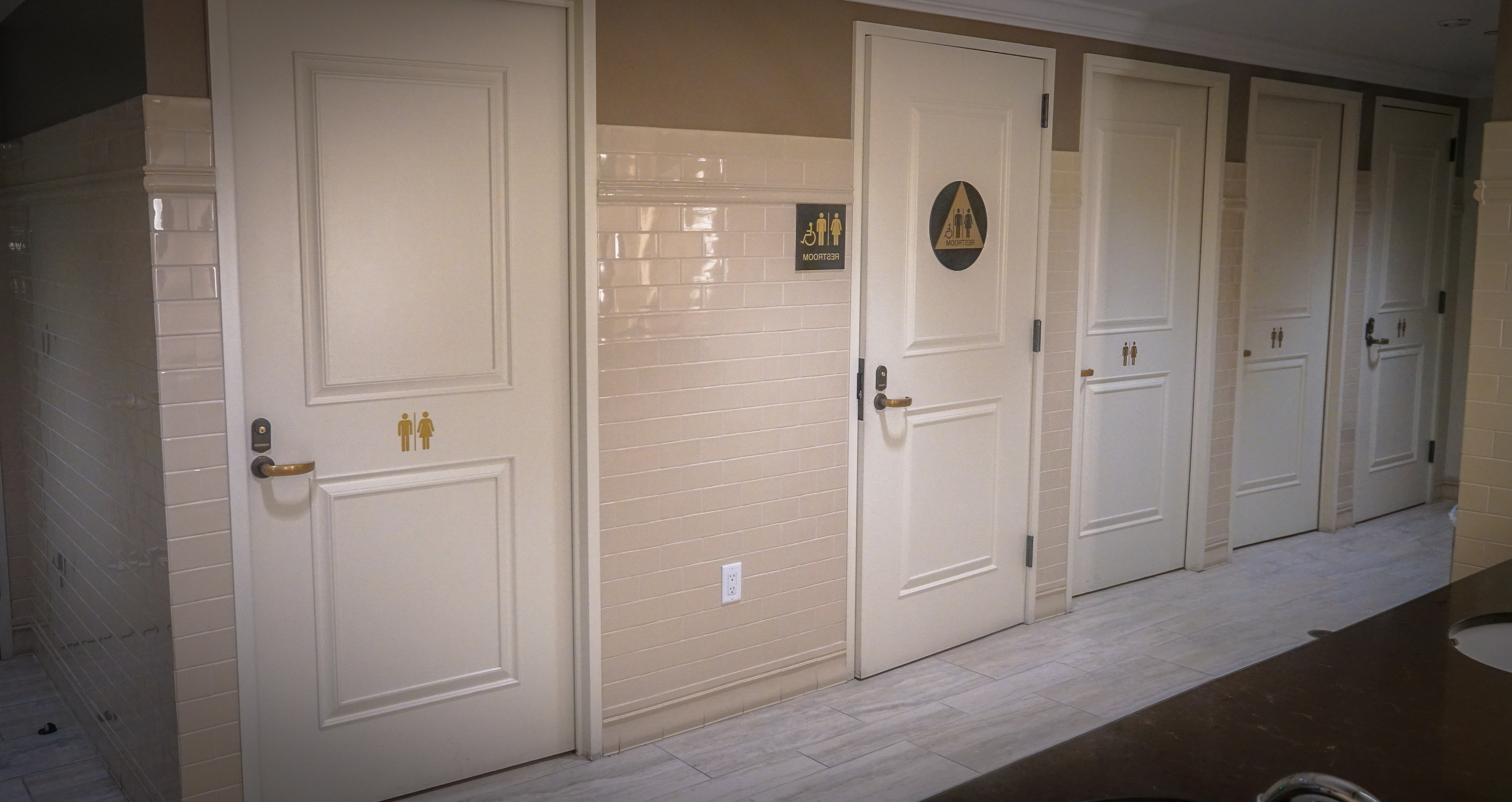 2016.11.03 All Gender Restroom, Federal Reserve Bank San Francisco, CA USA 08620